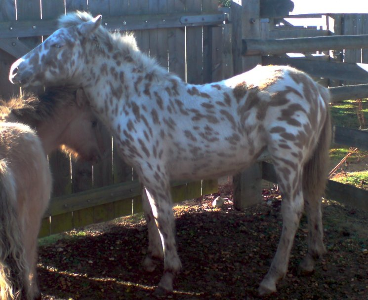 Markedly stripy appaloosa patterns overlain on bay-dun basecoat